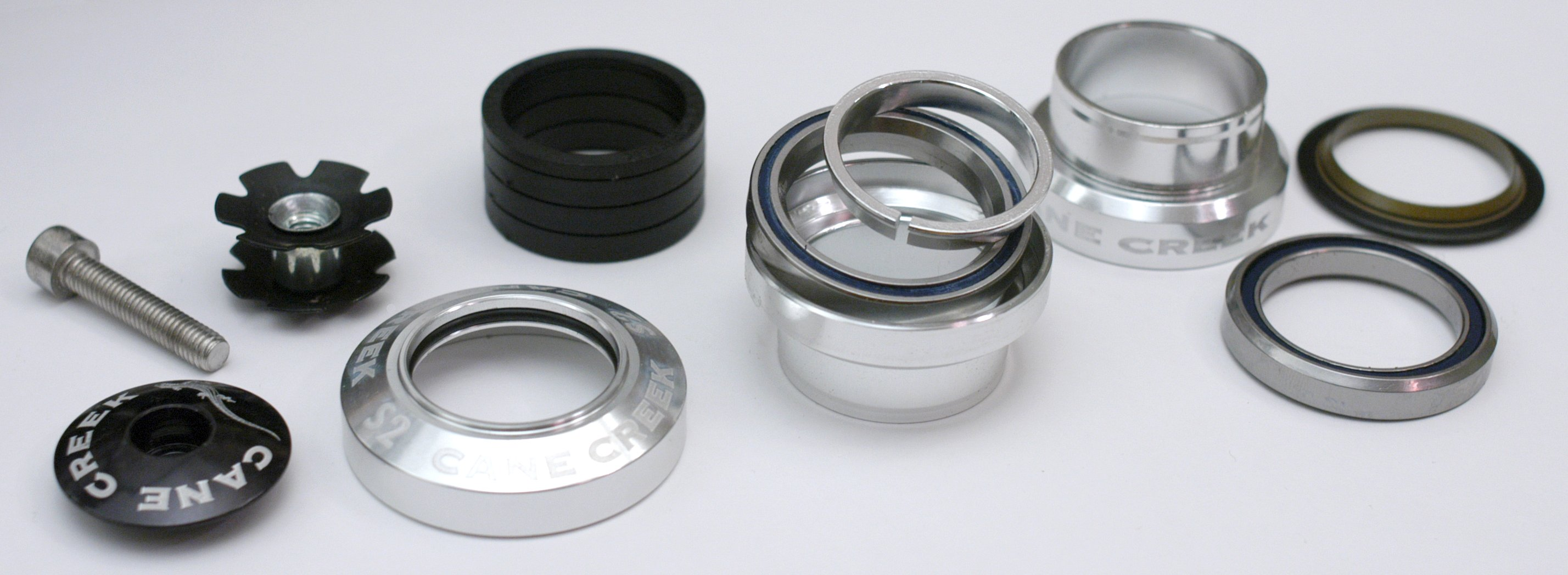 Cane Creek S-2 threadless cartridge bicycle headset, before installation.